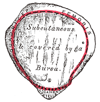 Right patella, anterior surface.